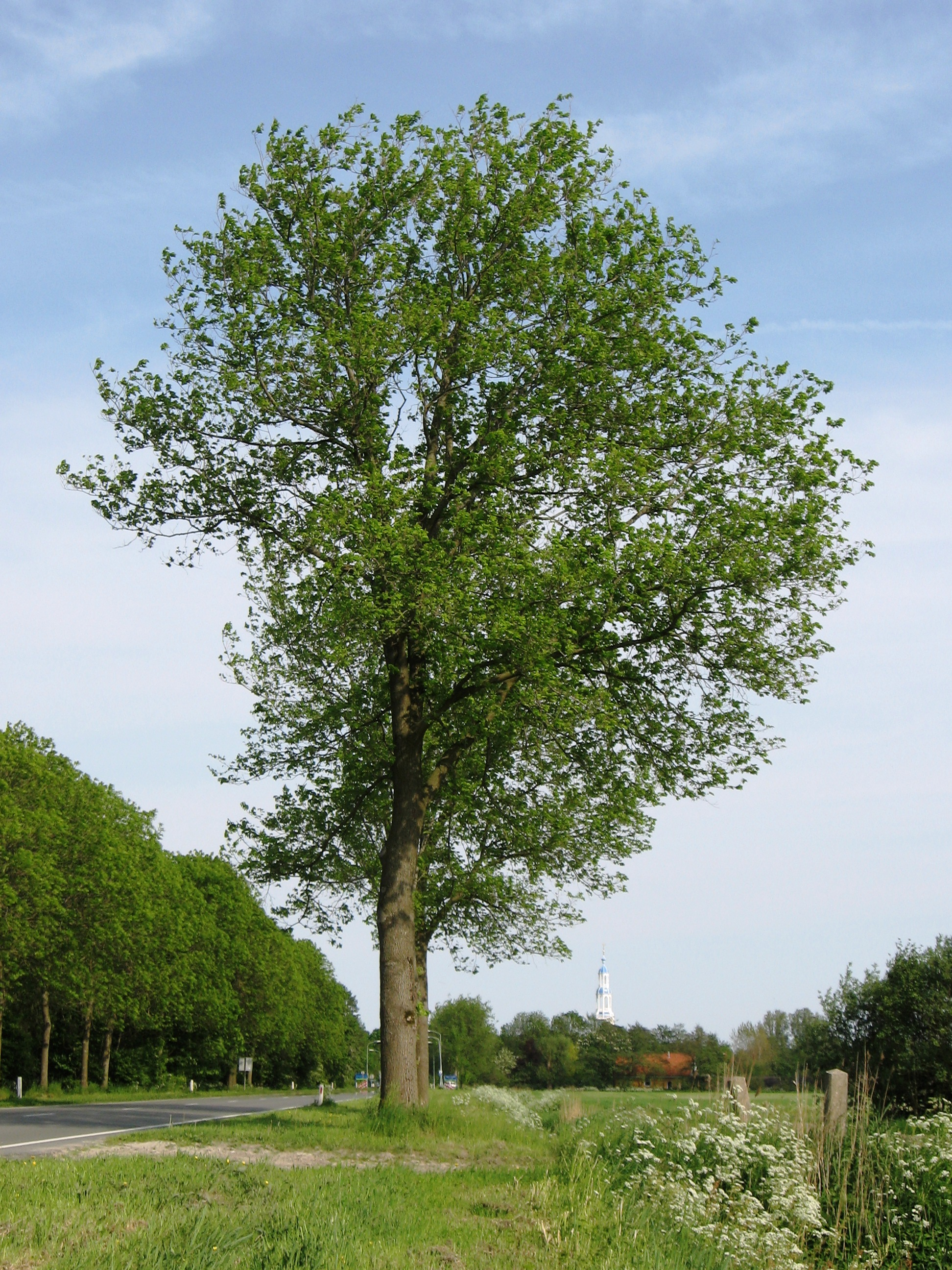 Ulmus hollandica 'Commelin' in summer; Photo by R. Nijboer